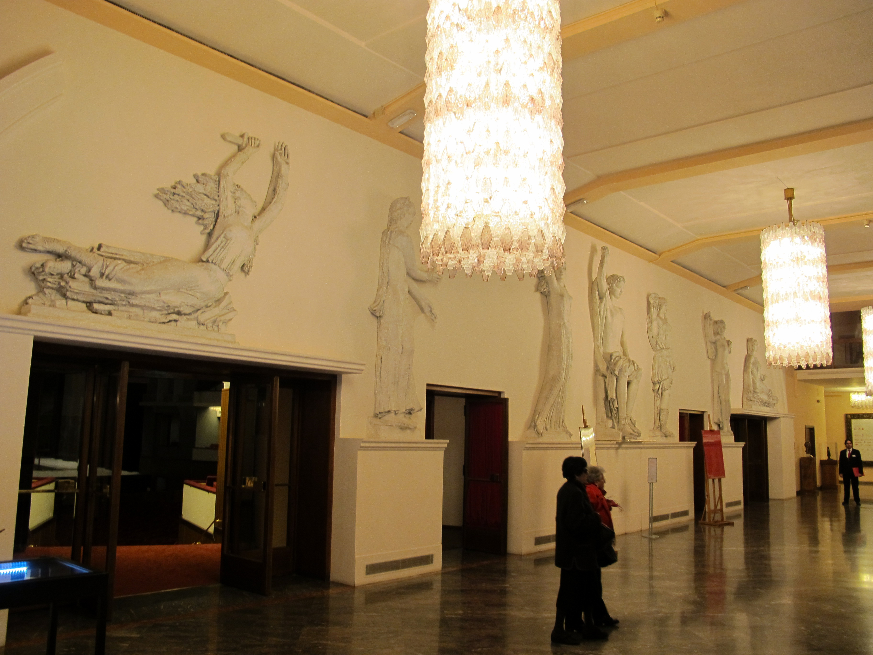 Teatro Comunale (Florence) - Interior